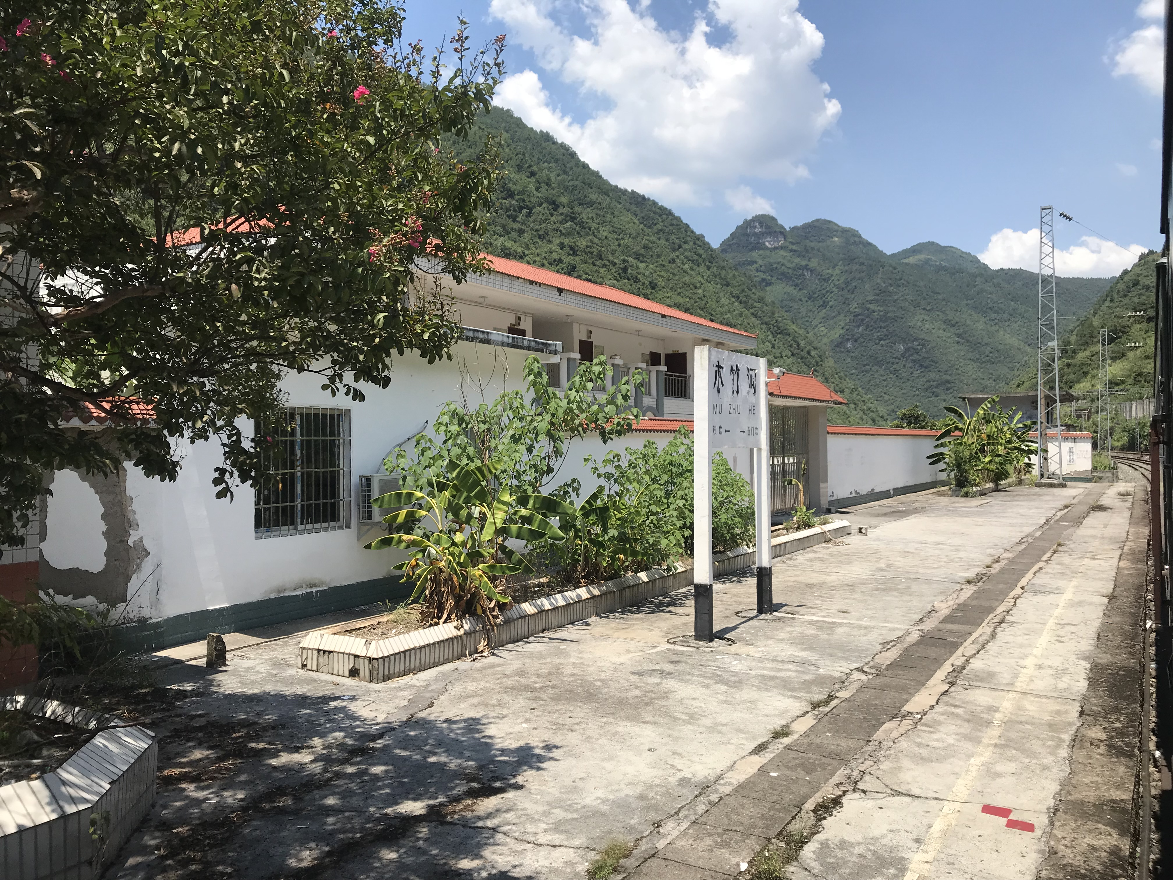 201908 Nameboard of Muzhuhe Station (2)